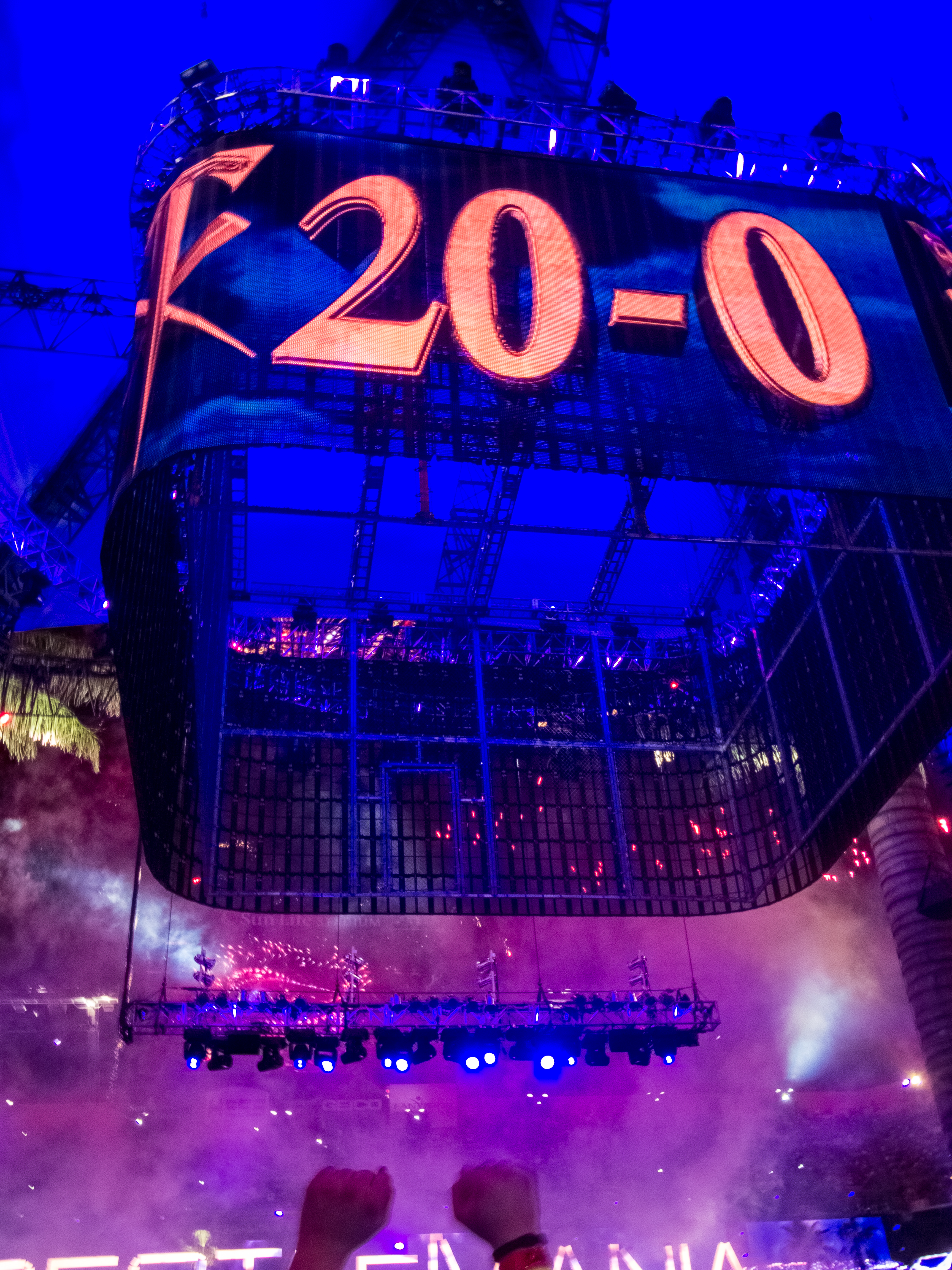 End of an Era - hell in a cell match